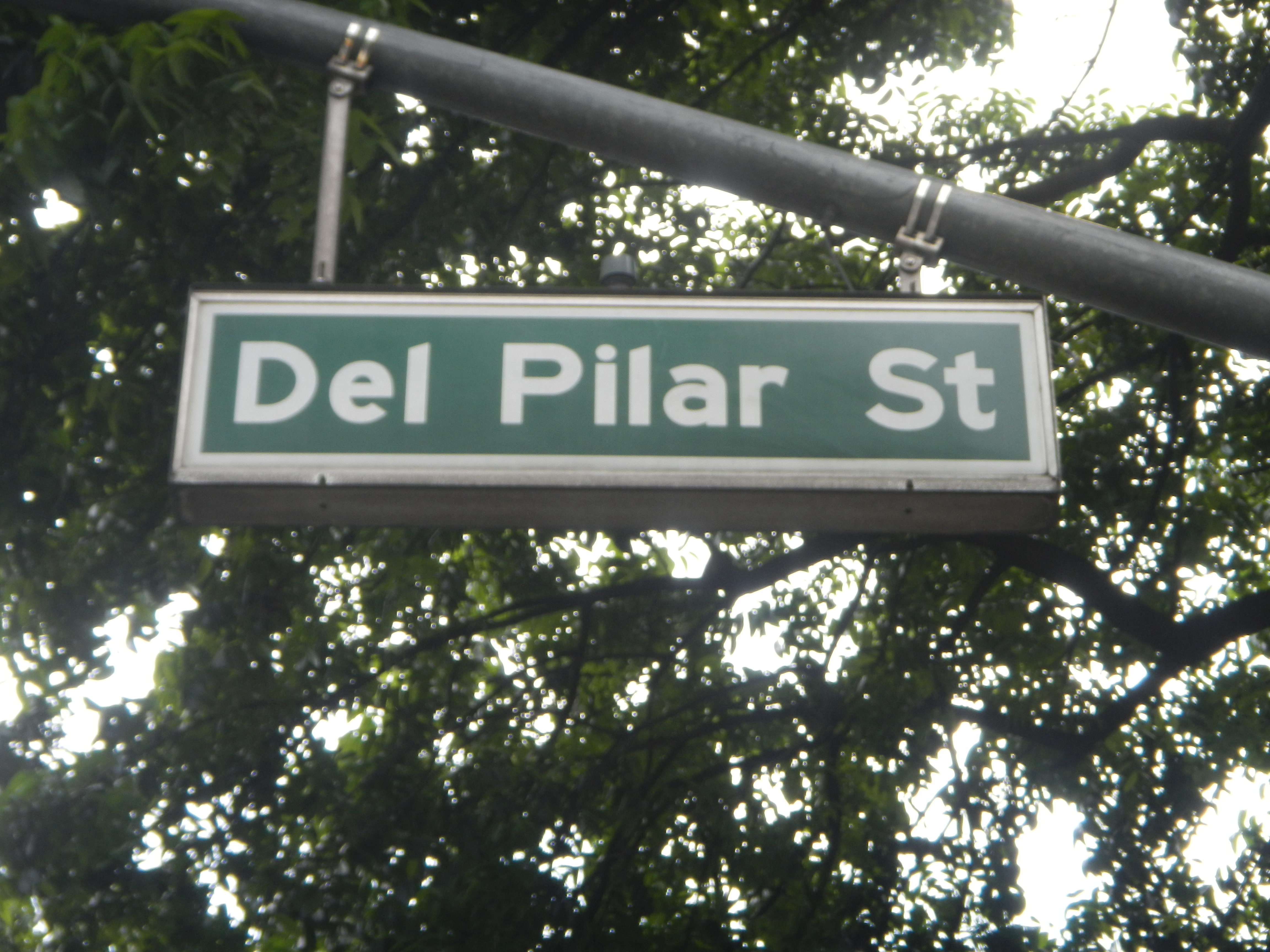 Quirino Avenue (Paco-Malate, Manila section) Quirino Avenue, Ospital ng Maynila Medical Center, Public Hospital (a 300-bed non-profit tertiary, general and training hospital, the laboratory hospital of health science students of Pamantasan ng Lungsod ng Maynila Coordinates 14°33'49"N 120°59'11"E along corner M. H. del Pilar Street corner Madre Ignacia Street corner Mabini Street corner San Andres Street from Roxas Boulevard (Malate, Manila section) of Roxas Boulevard in the List of roads in Metro Manila, Major roads in Manila, Malate, Manila (in the List of barangays of Metro Manila, Legislative districts of Manila Barangays 669, Zone 72, 698, 699, Zone 76, 700, 701, Zone 77, 719, 720 & 721, Zone 78, District V, Malate, Manila, City of Manila).